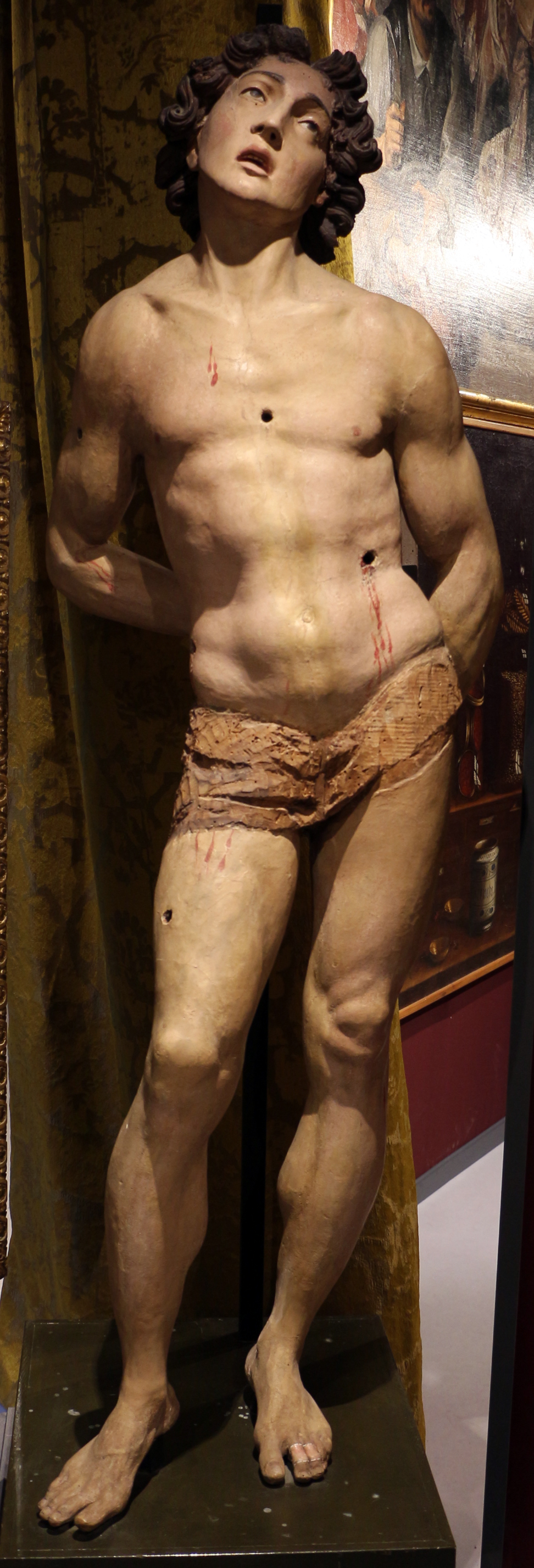 Il Tesoro d'Italia (exhibition at Expo 2015)